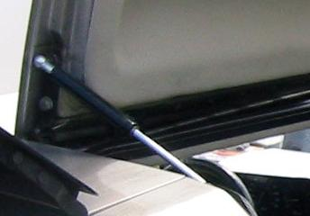 DeLorean DMC-12 torsion bar.